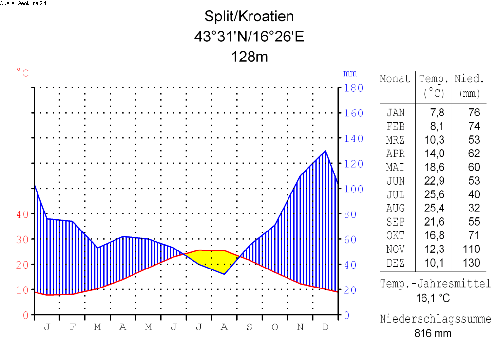 climate chart in the format by Walter and Lieth, metric, °Celsisus and millimeters, made with Geoklima 2.1